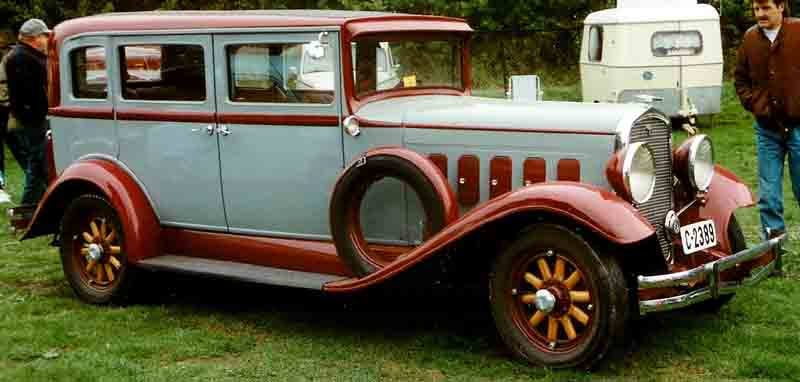 Hudson Greater Eight (Series T) 4-Door Sedan (1931)